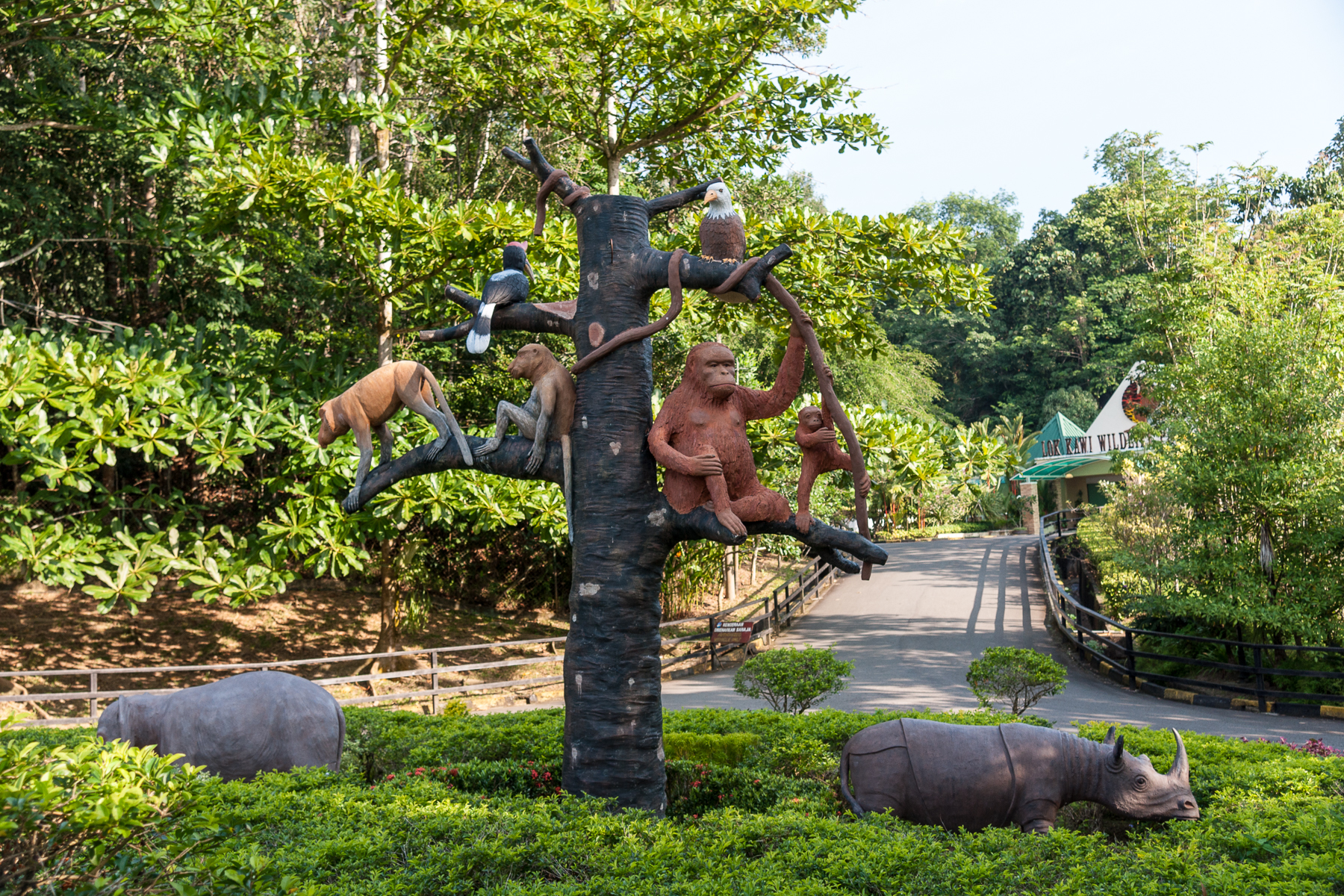 Lok Kawi, Putatan, Sabah: Lok Kawi Wildlife Park